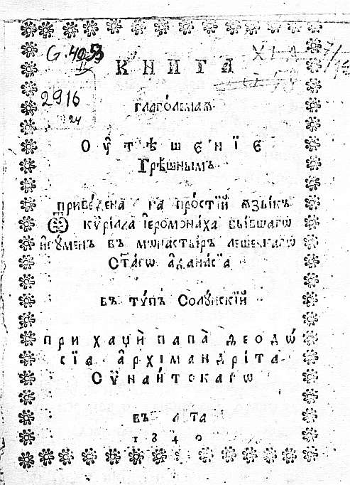 Kiril Peychinovich's Utesheniya Greshnim, title page